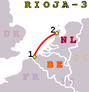 Route of the RIOJA-2 Submarine communications cable